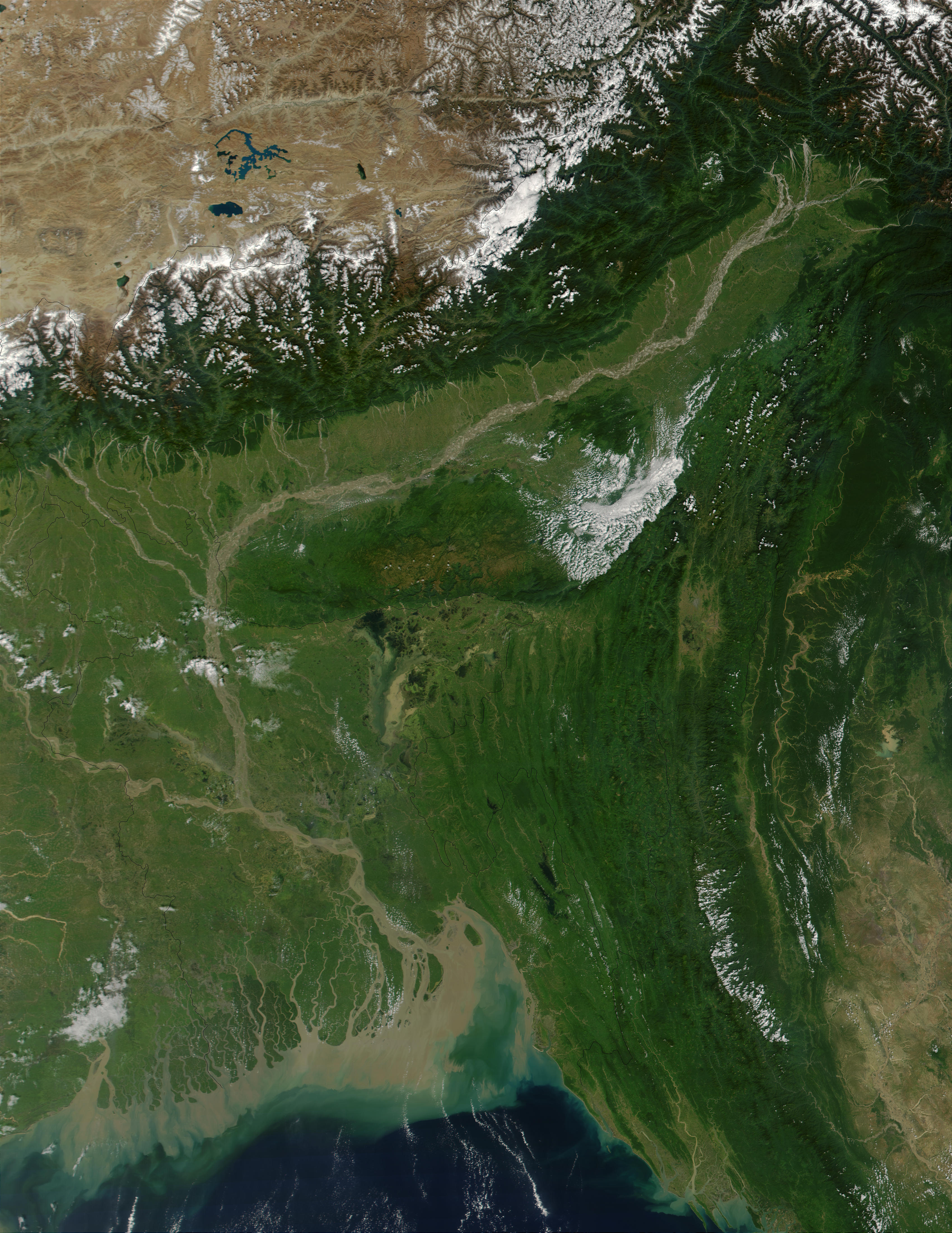 Brahmaputra plain and Eastern Himalayas in Northeast India